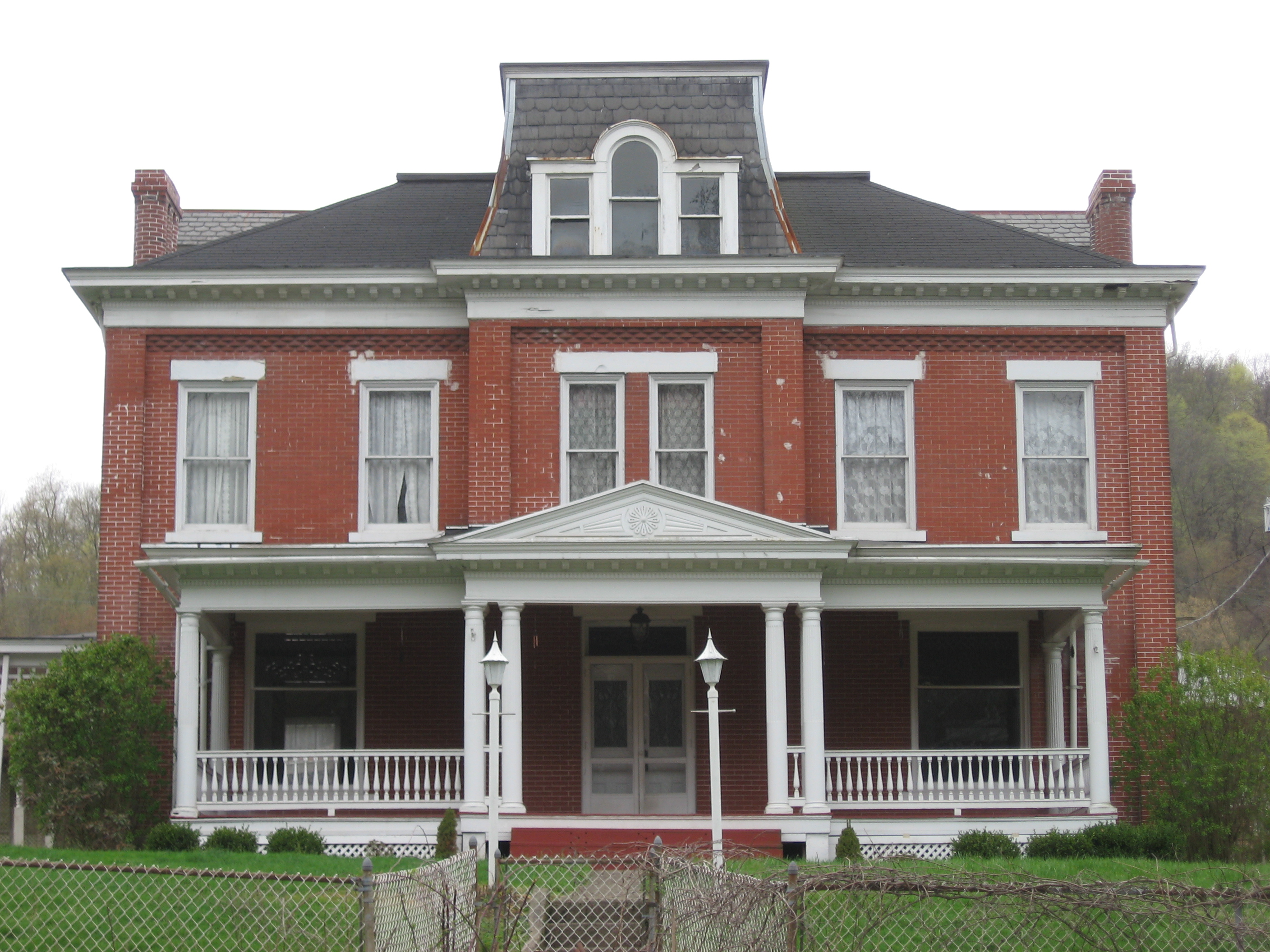 Front of the William T. Nicholls House, located along West Virginia Route 67 (the Bethany Pike) and Buffalo Creek southeast of Wellsburg in Brooke County, West Virginia, United States. Built in 1893, the house and an associated watermill site across the road are listed on the National Register of Historic Places.